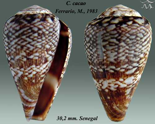 Conus cacao1